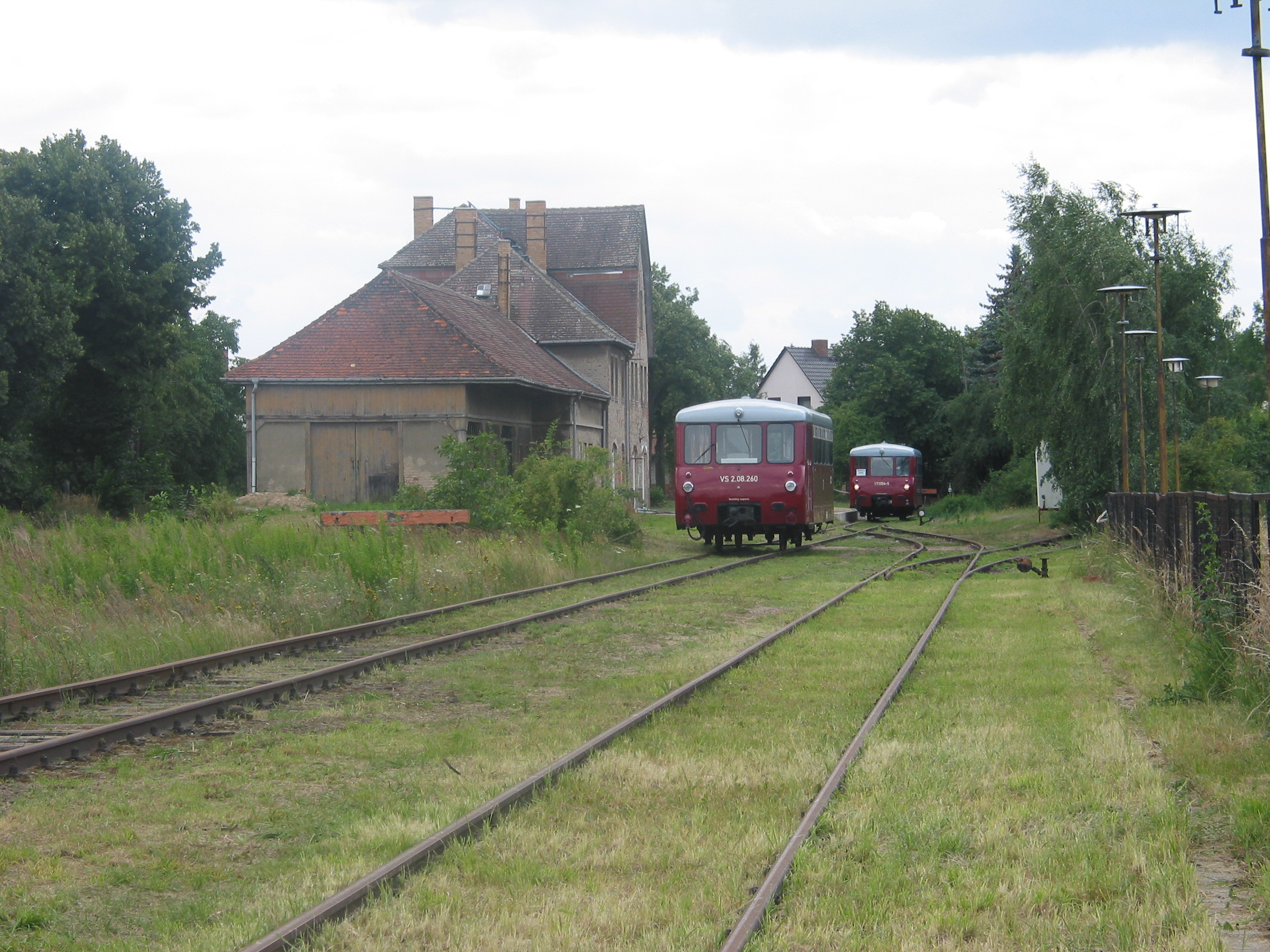 Reopening of rail transport after 46 years in Mühlberg (Elbe) with the Elbe-Elster-Express